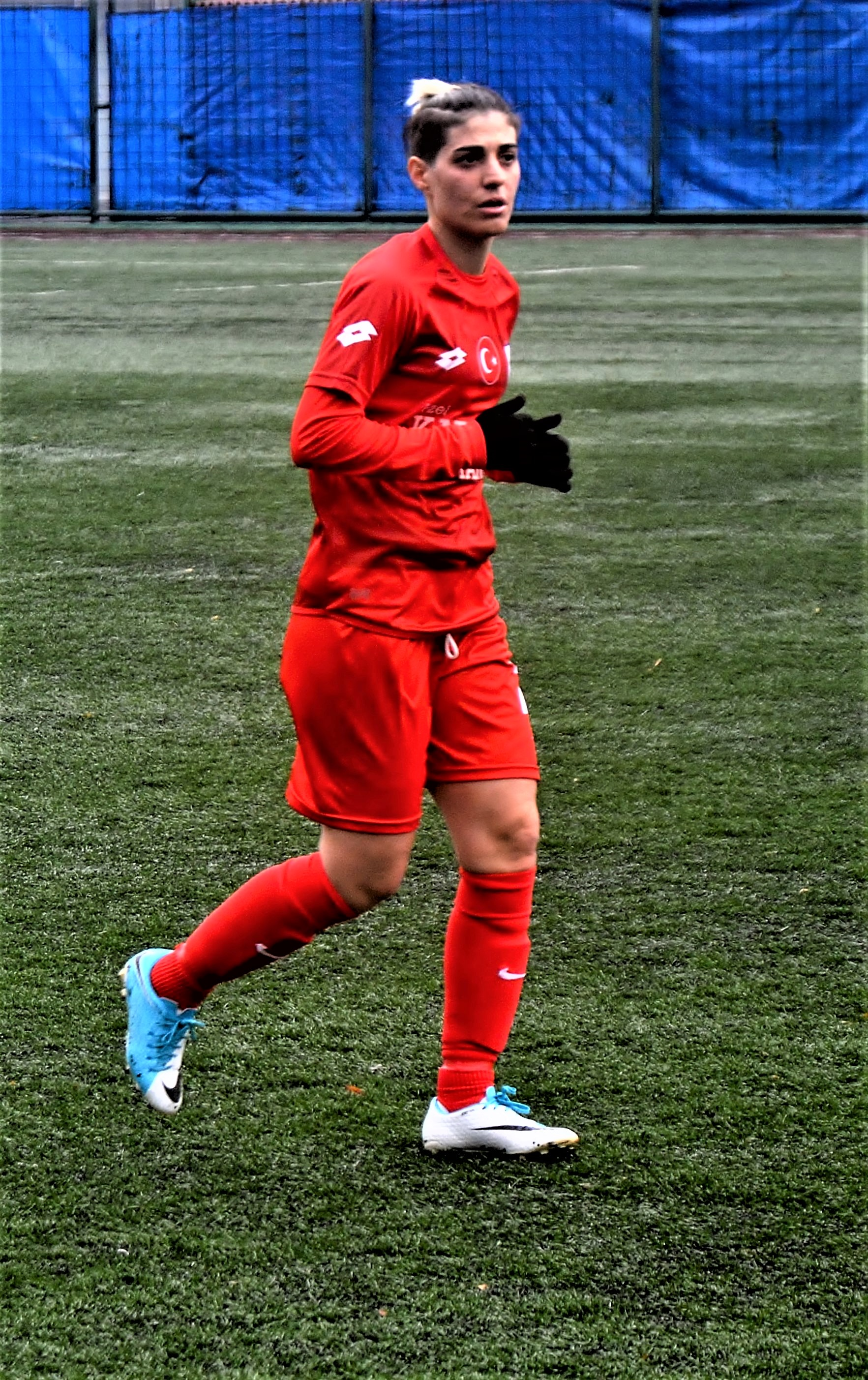 Zehra Borazancı playing for Konak Belediyespor in the 2017-18 Turkish First Football League